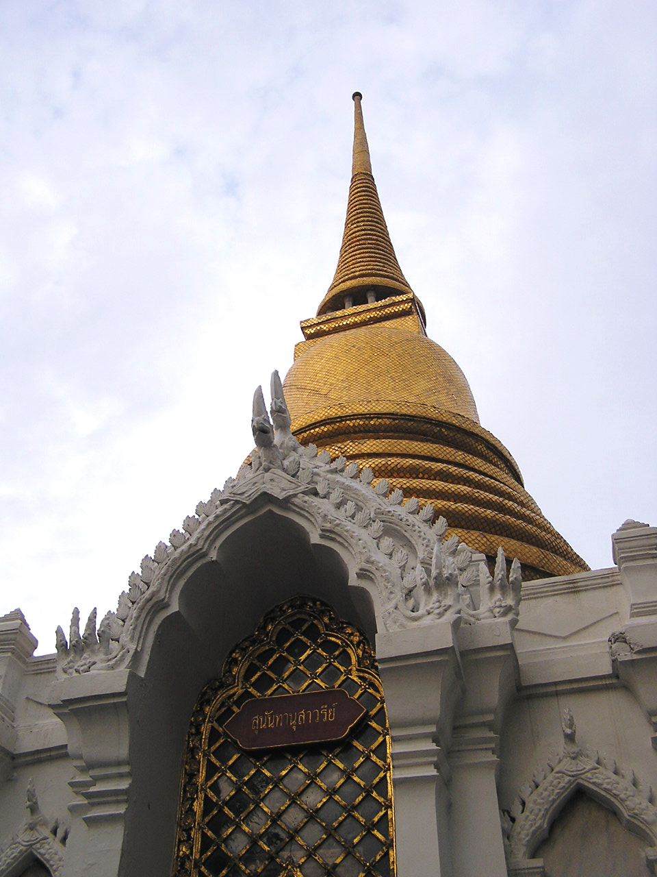 Mausoleum of HM the Queen Sunandha Kumariratana at Royal Cemetery in Wat Ratchabopit, Bangkok, Thailand